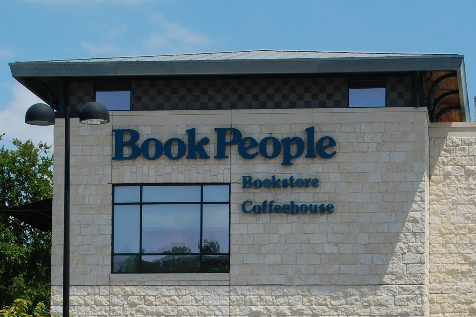 BookPeople is an independent Bookstore in Austin, Texas